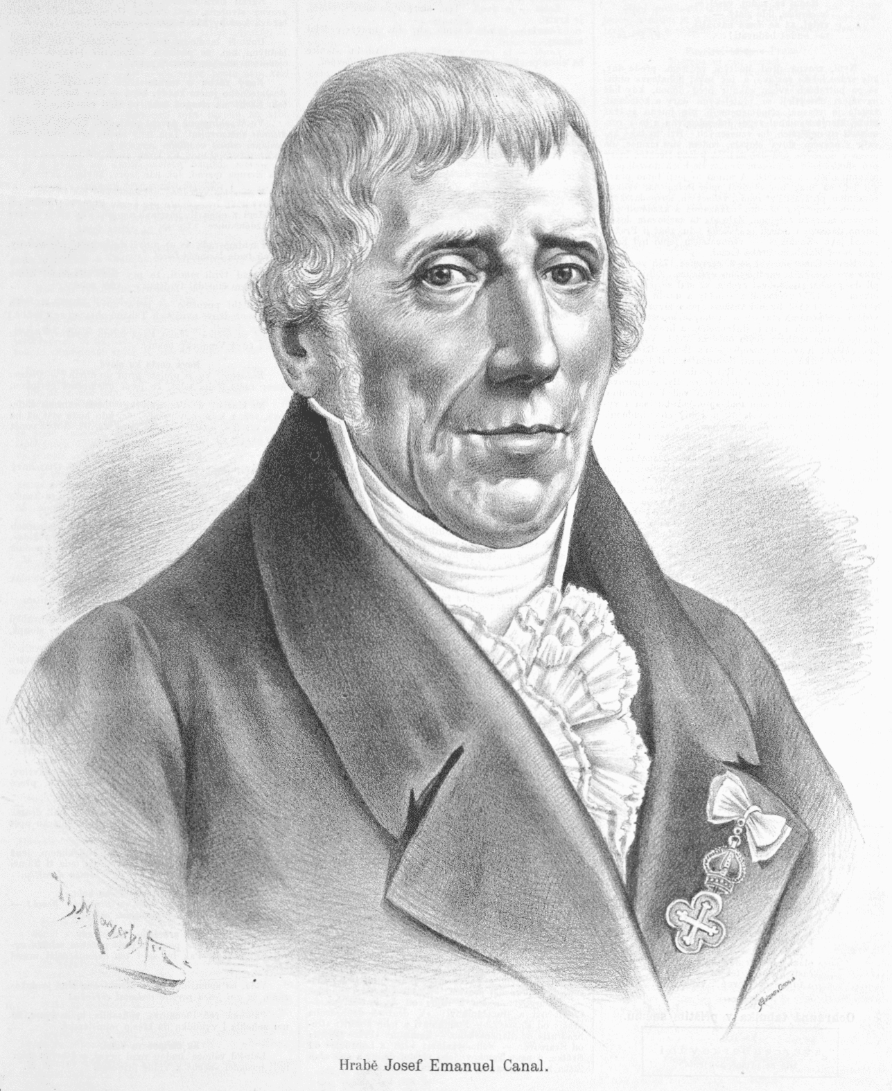 Josef Emanuel Canal